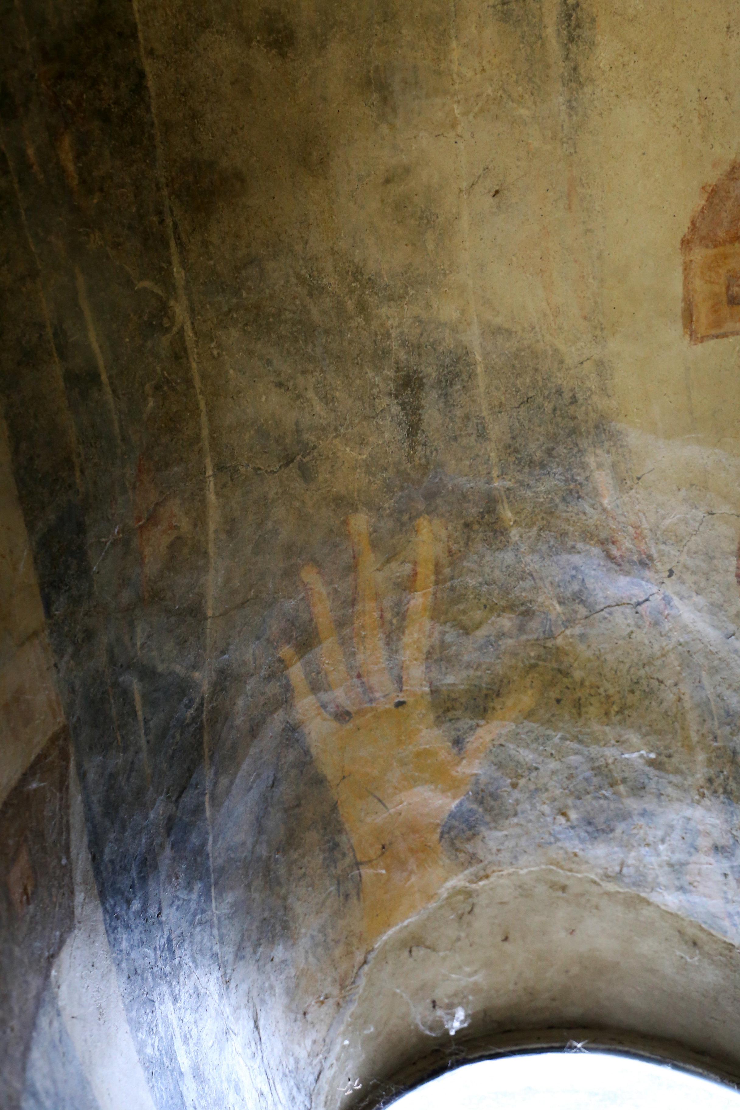 Epifanio Crypt